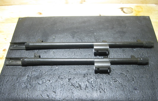 SPAS-12 21-1/2" Barrel Versus 19-7/8" Barrel.